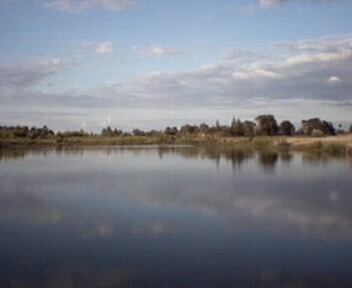 Belarus, Brest Region, Lake near village Odirvanzy. Author: Alexander Gouk